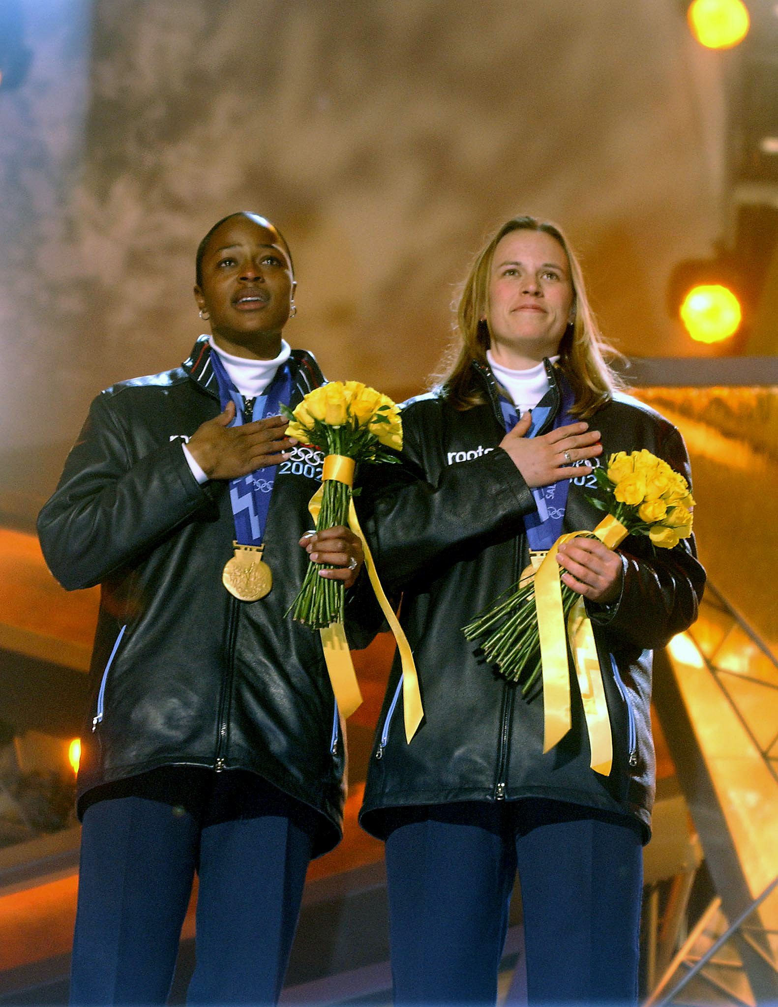 Vonetta Flowers and Jill Bakken, USA, listen to the United States national anthem during the medal ceremony in Salt Lake City, after winning the gold medal in women's two-man bobsled for the United States in the 2002 WINTER OLYMPIC GAMES. The team was not favored going in but ended up breaking a 46 year drought for the United States, winning the Gold over another American team and favored German team, setting a track record in the process.